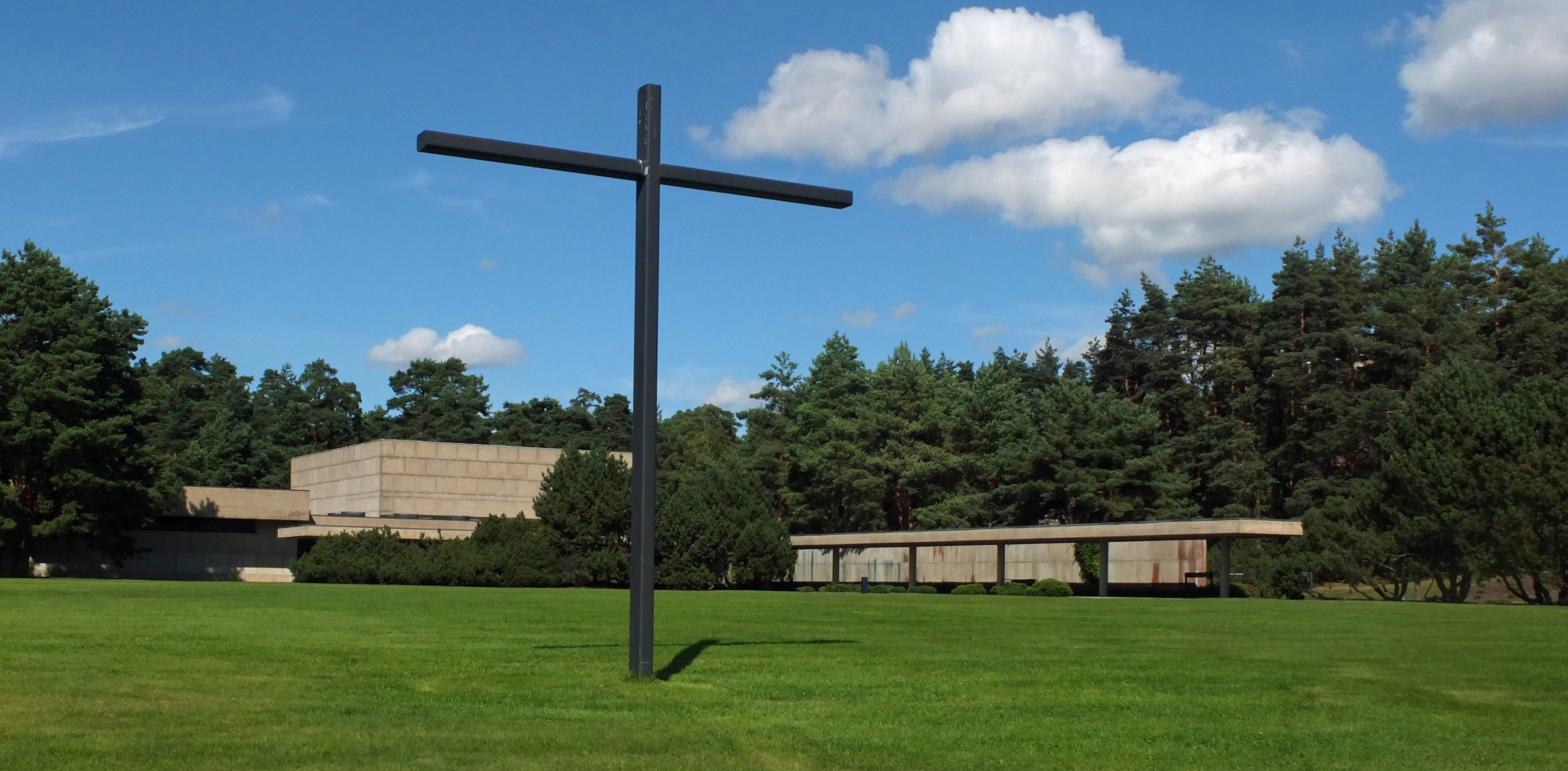 Pyhän Ristin kappeli, funeral chapels at the Turku cemetery, architect Pekka Pitkänen, early 1960s.